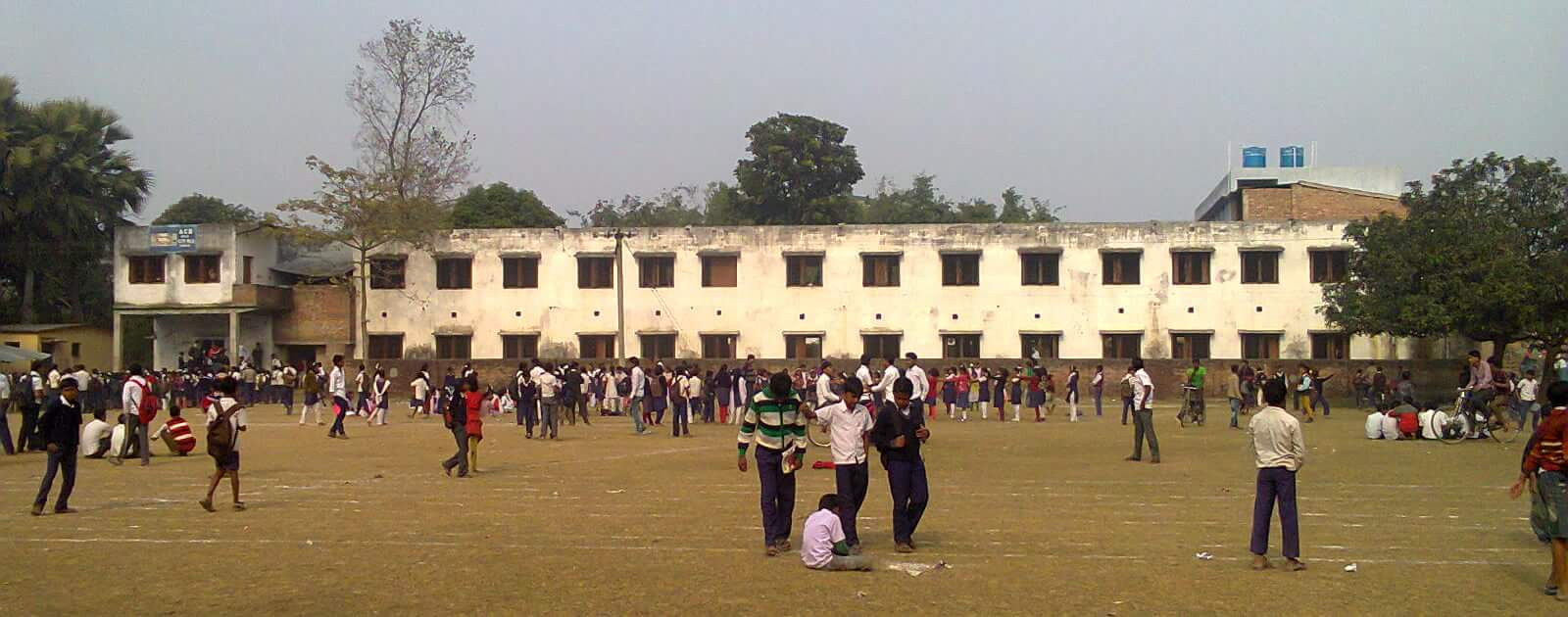 Sattari High School Playground in 2015